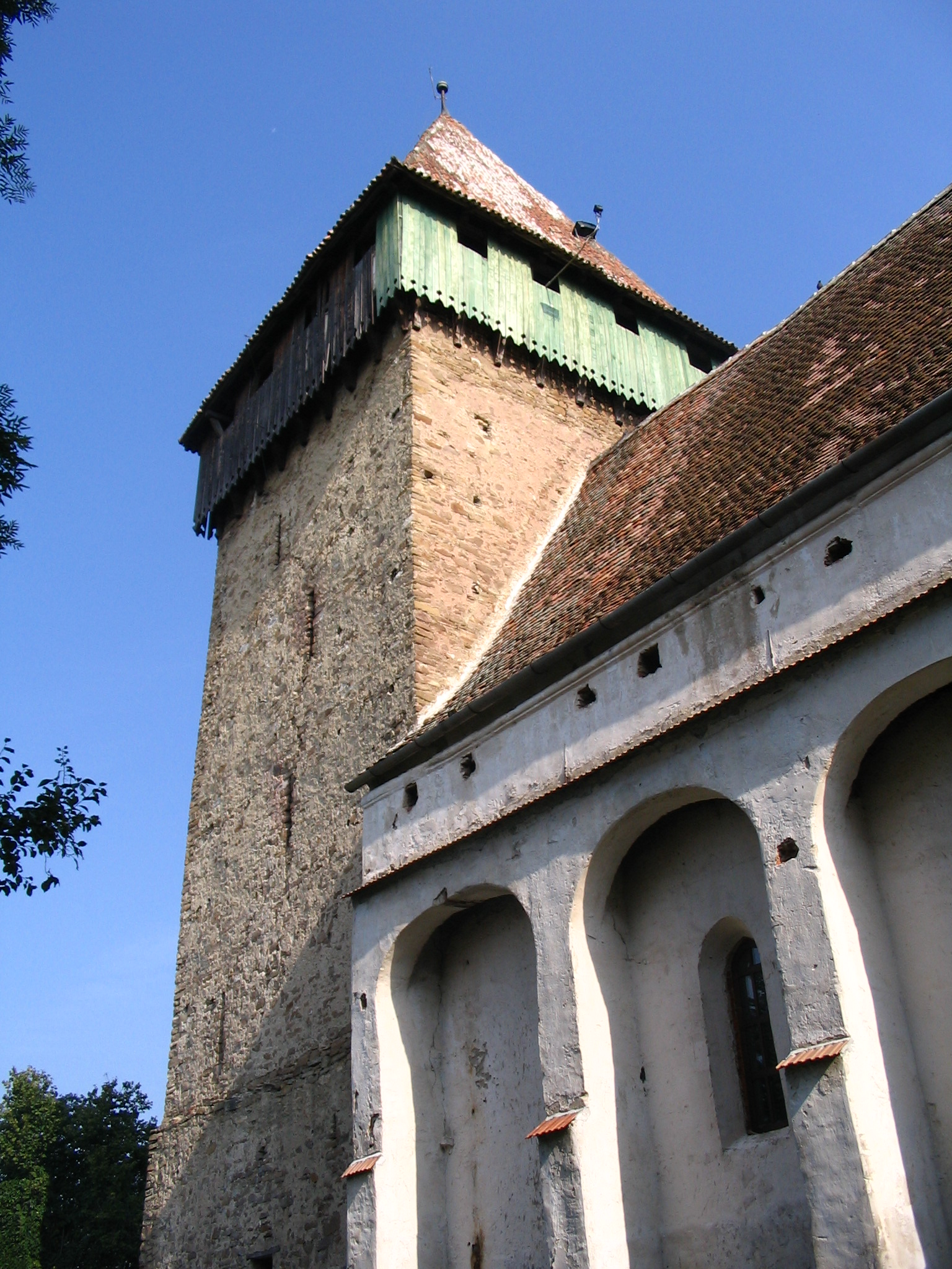 Fortress church of Iacobeni, Romania